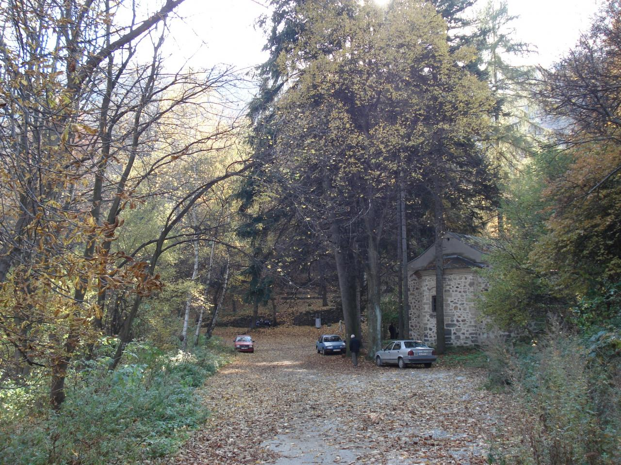 Gorna banya monastery "St Cyril and St Methodius", Lyulin mountain, Bulgaria